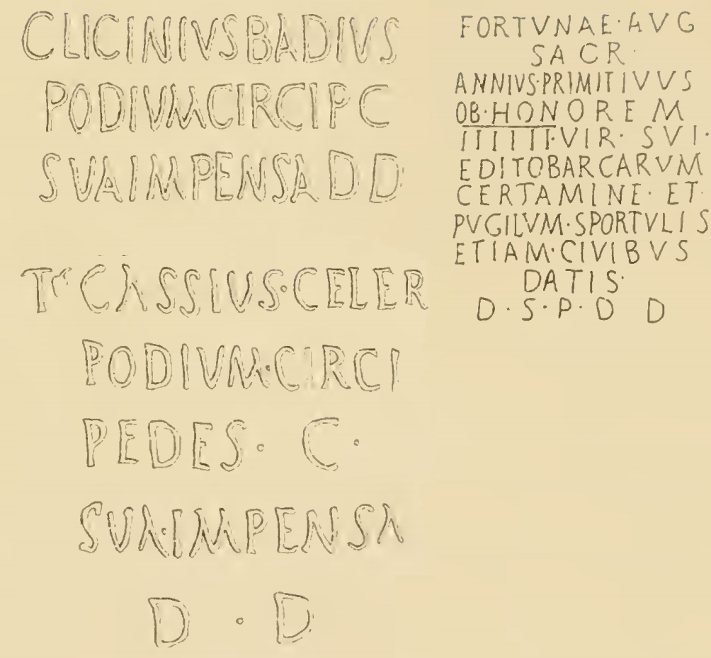 Latin inscriptions on three limestone plaques, found on the area of Quinta de Torre de Aires, in the municipality of Tavira, Portugal. All make reference to the circus of the ancient city of Balsa, being the two of the left about the citizens Gaius Licinius Badius and Titus Cassius Celer, that have paid for part of the construction of the circus, while the one on the right honors Annius Primitivus for having provided for a boat battle and then an athlete fight. This drawing was taken from Revista Archeologica e Historica, volume I, from 1887, (page 214) available at the website.